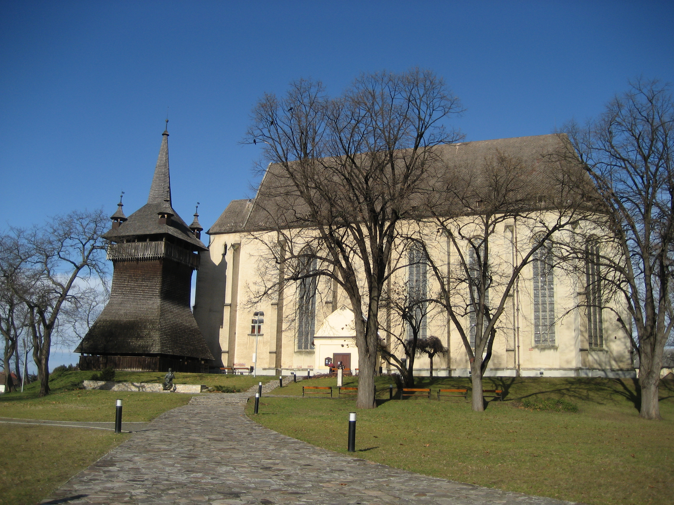 Church in Nyírbátor in the Northeast of Hungary, Europe